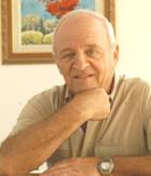 Mark Shechtman